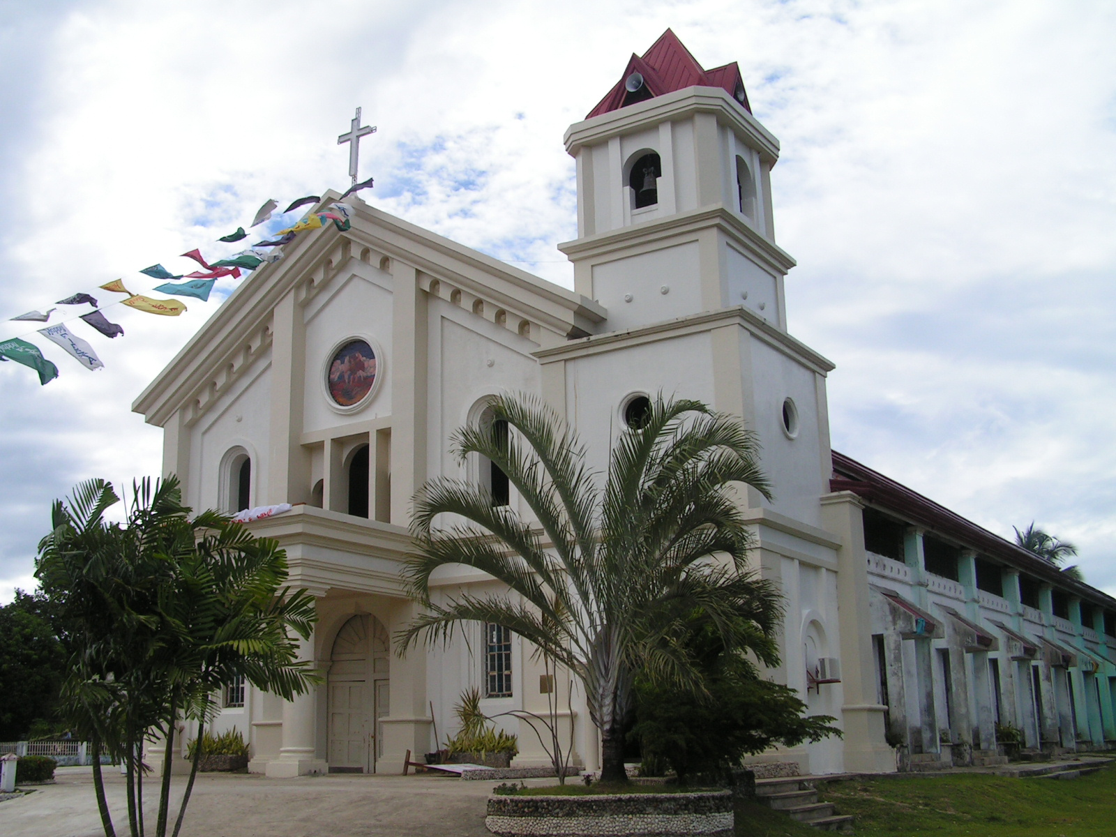 self-taken